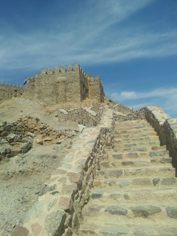 جزيرة فرعون